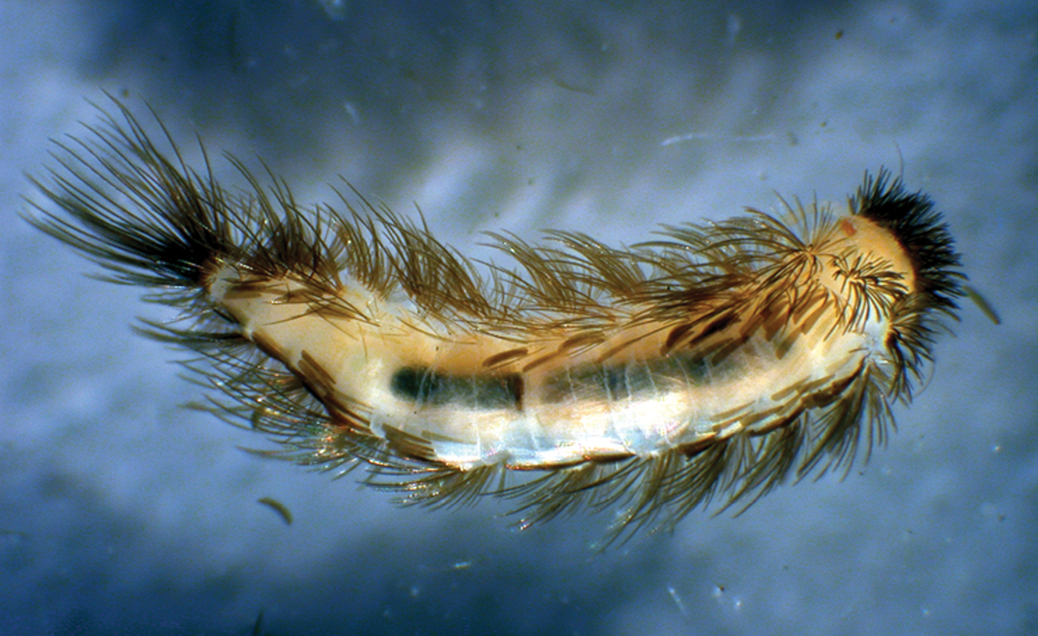 Phryssonotus brevicapensis, a species of penicillate millipede Polyxenida: Synxenidae) from South Africa described in 2011. Length: 5 mm.